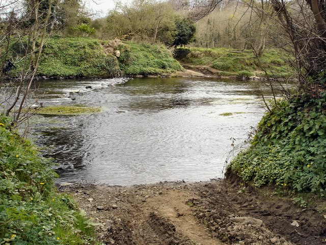 Old Ford on the River Roe This was marked as a ford on the older OS map and a track is still indicated on the current map. By the wheel tracks somebody might have tried it!